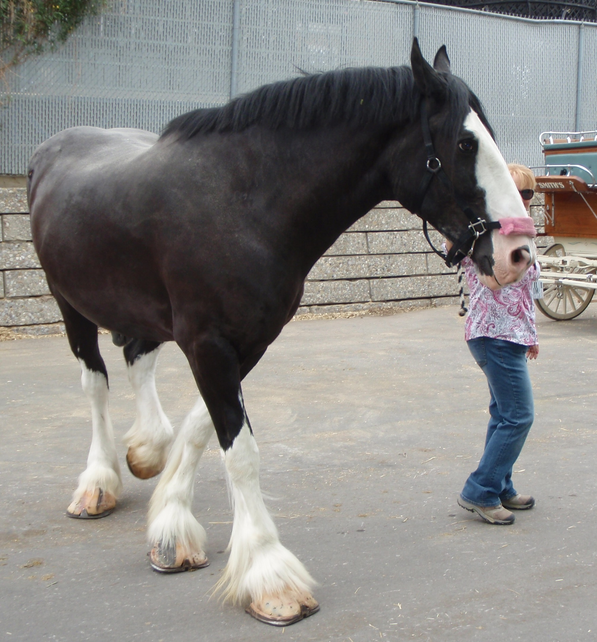 A Belgian horse in Stampede Park at the Calgary Stampede.